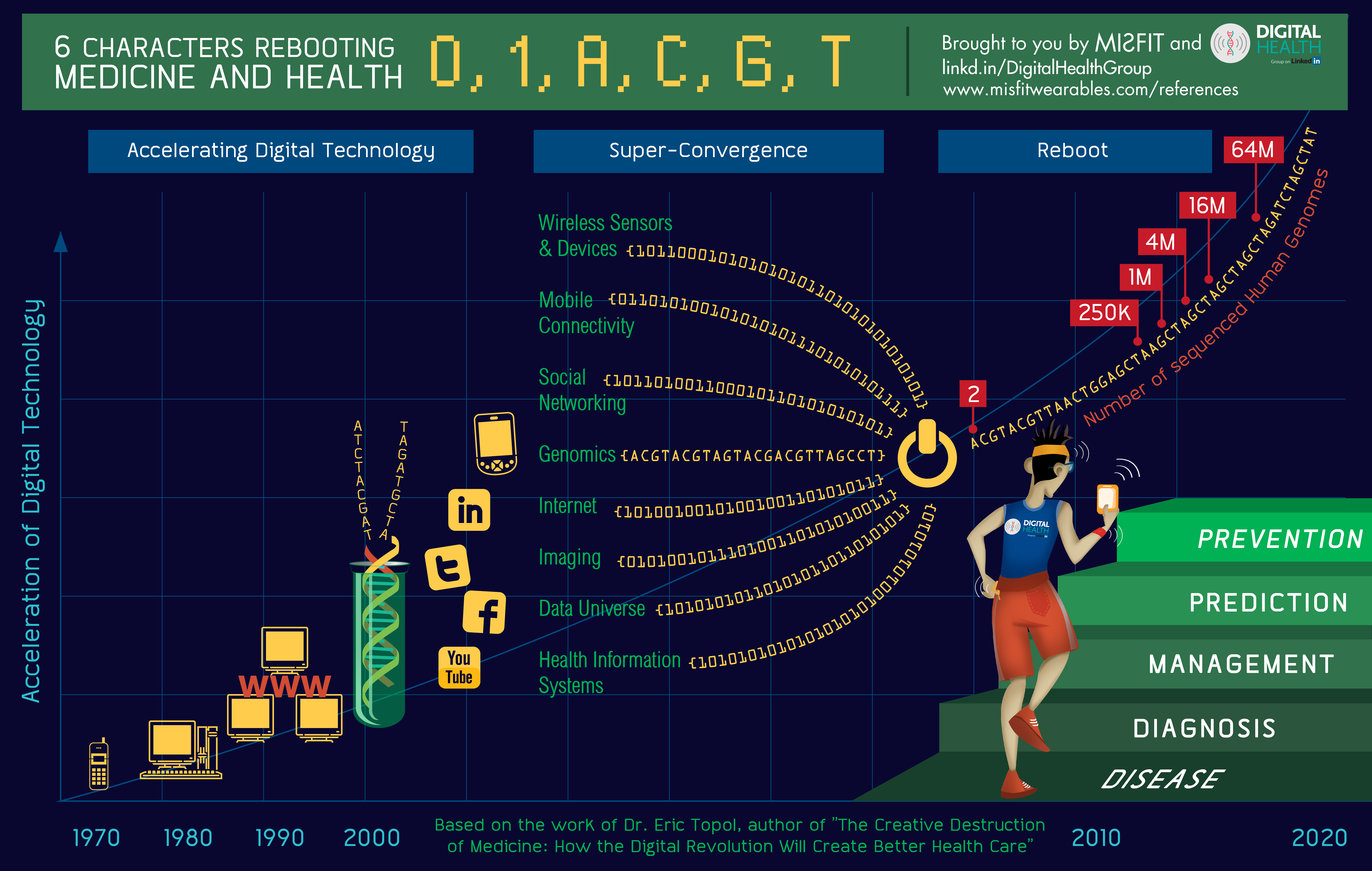 This infographic describes the elements of Digital Health